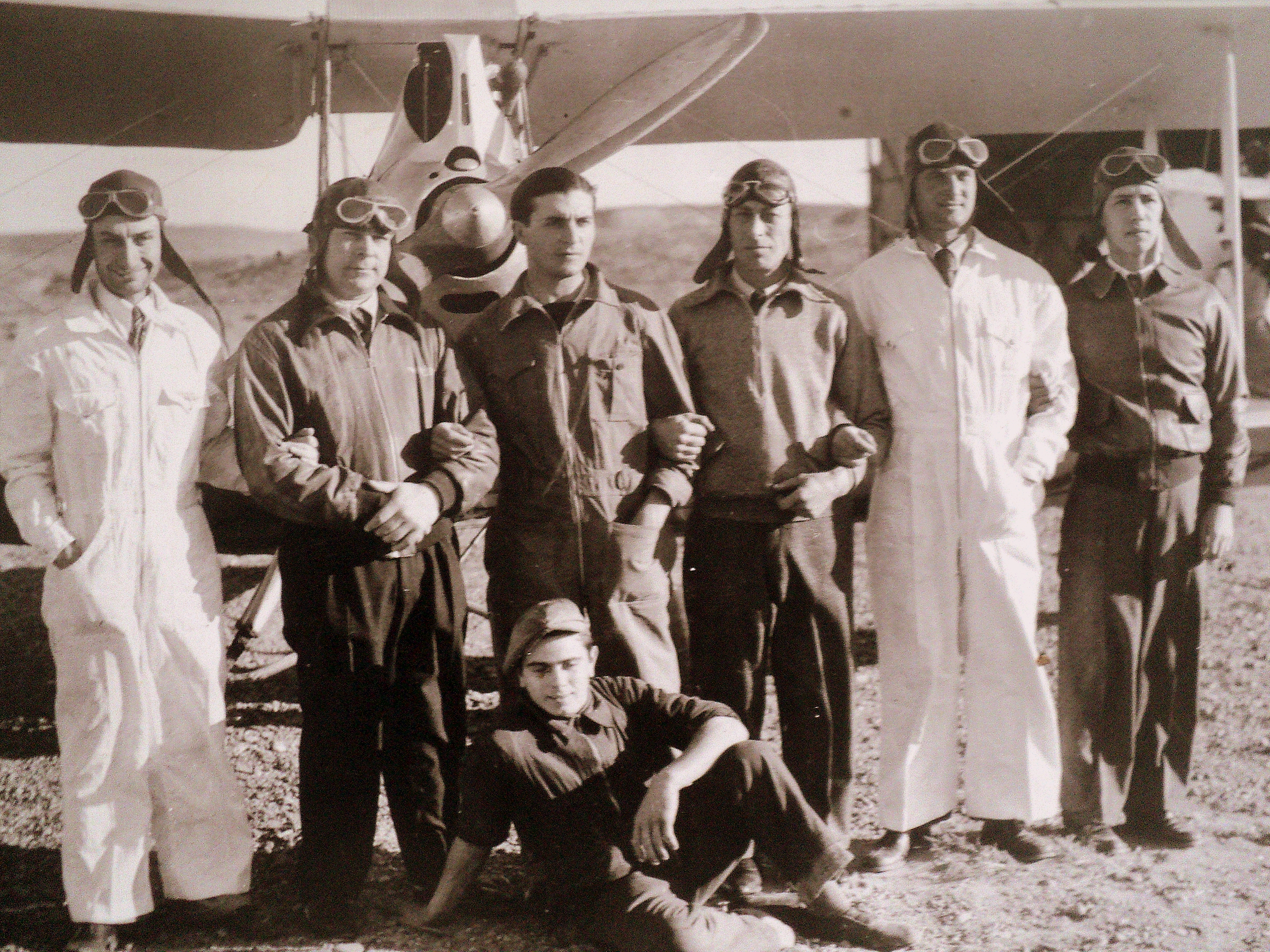 Argentine flyier Próspero Palazzo with his team. He died tragically in 1936.